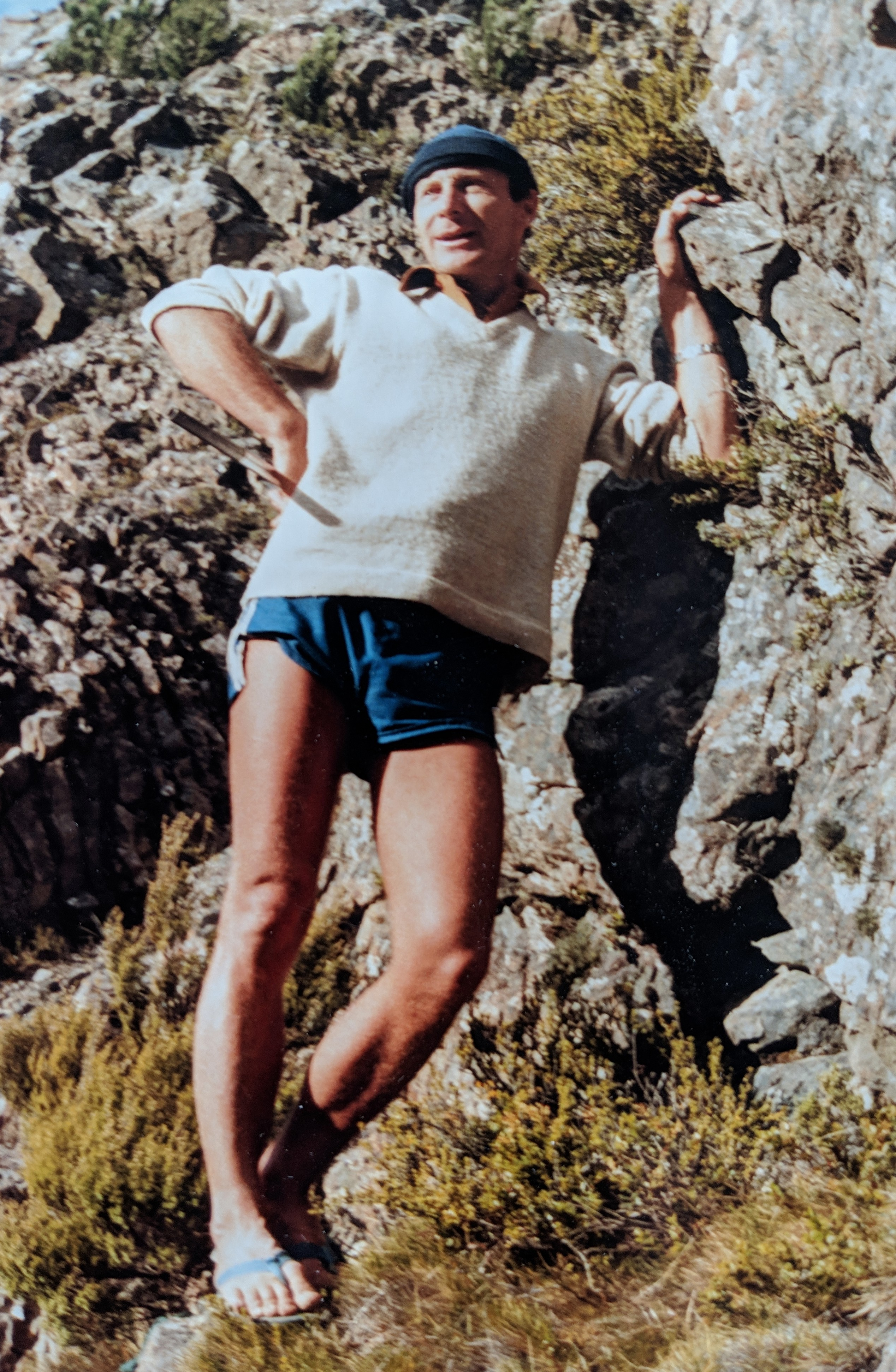 John Kenneth Bartlett, during a botanising trip in North West Nelson